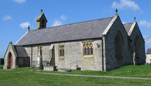 A cropped version of File:St. Beuno's Church, Aberffraw - .uk - 156921.jpg